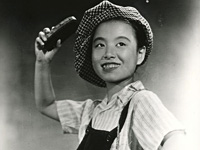 Hibari Misora in 1950 Japanese movie Tokyo Kid